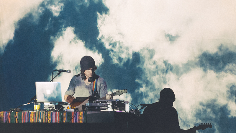 Christopher Willits OPENING Release Party in San Francisco